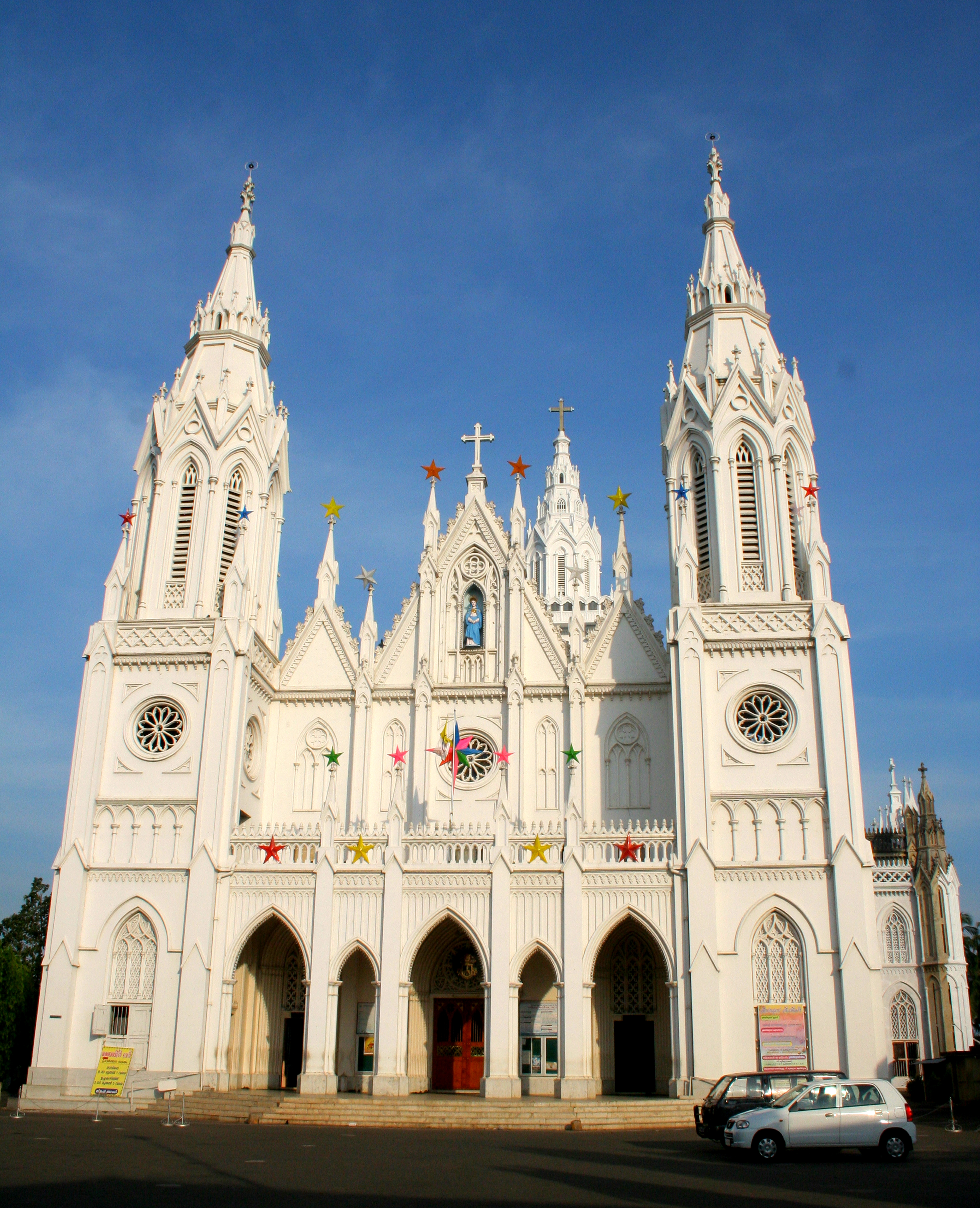 This media file is uploaded with Malayalam loves Wikimedia event - 3.